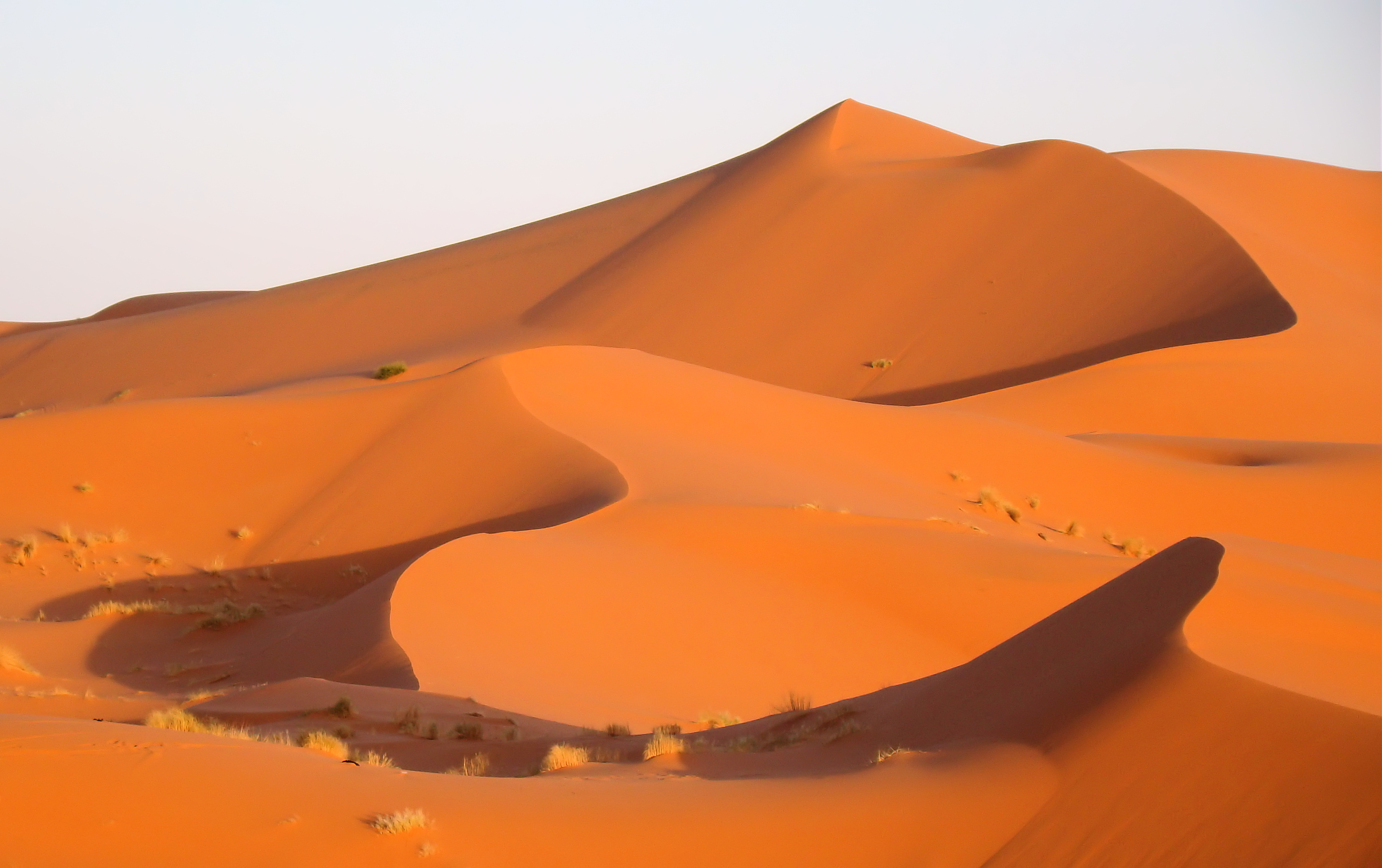 A section of the Erg Chebbi dunes near Merzouga in Morocco, near the border of Algeria.